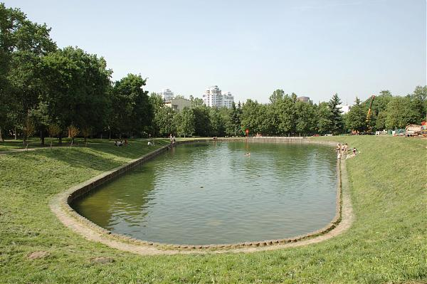 Perekopsky Pond